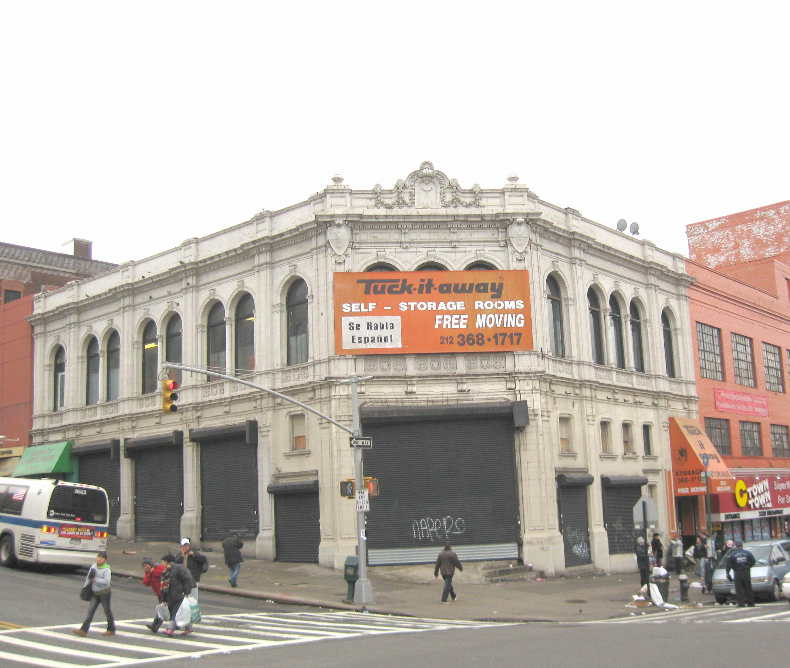 Looking south from Broadway and across 135th Street at former Claremont Theater on a cloudy midday.